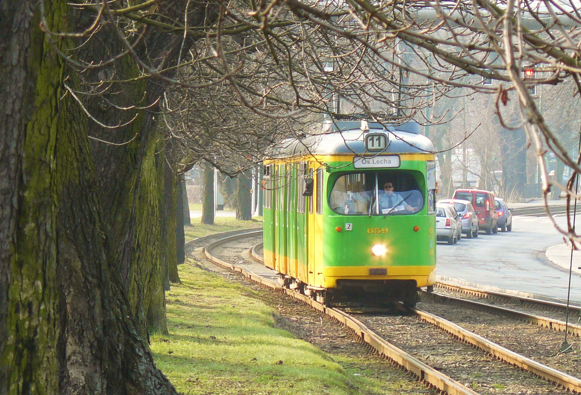 Wielkopolska Av. - Poznan. GT8-Tram.